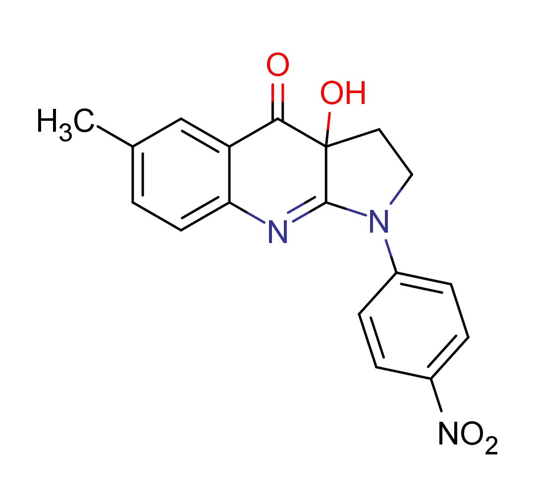 The chemical structure of para-nitroblebbistatin, a myosin inhibitor.